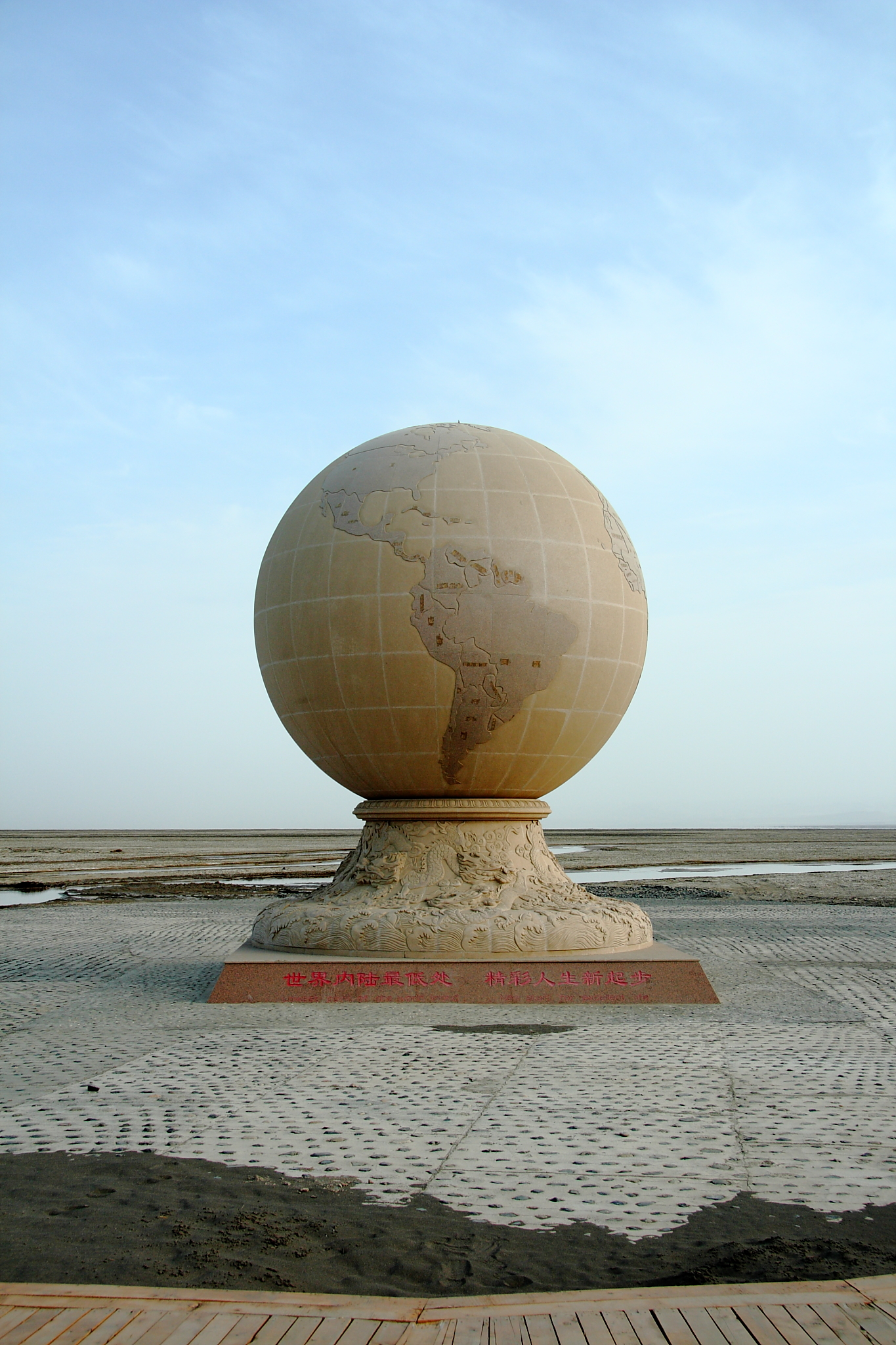 The Lowest Point in China (−154 m (−505 ft)) — in Ayding Lake, Turfan Depression. Located in the Xinjiang Uygur Autonomous Region of western China, Central Asia.